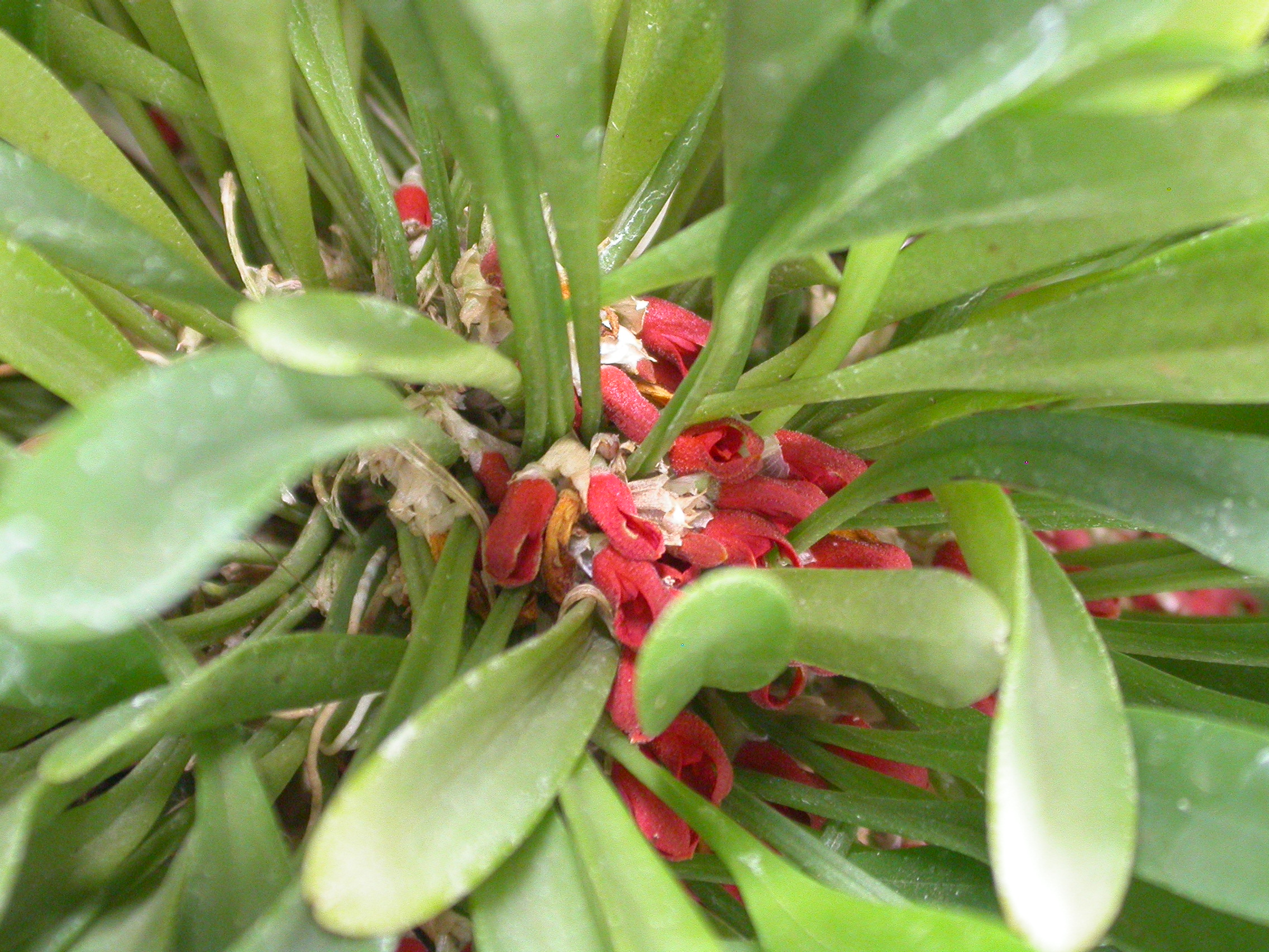 Tribulago tribuloides